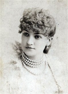 French actress Eugenie Le Grand in a 1880s publicity photograph. Le Grand was briefly married to actor Kyrle Bellew.